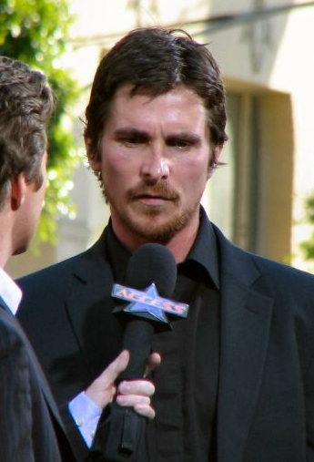 Christian Bale